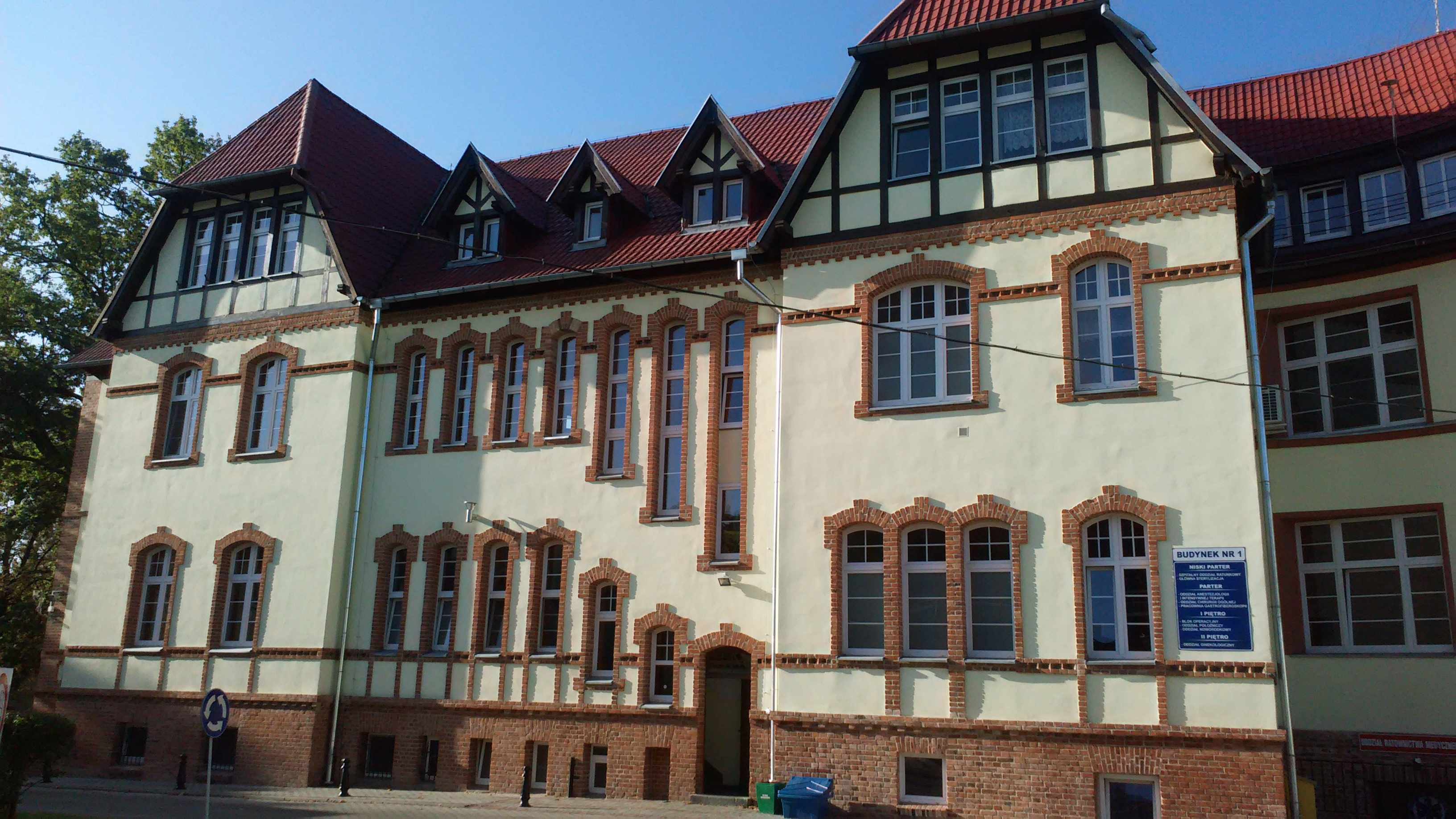 Hospital in Choszczno